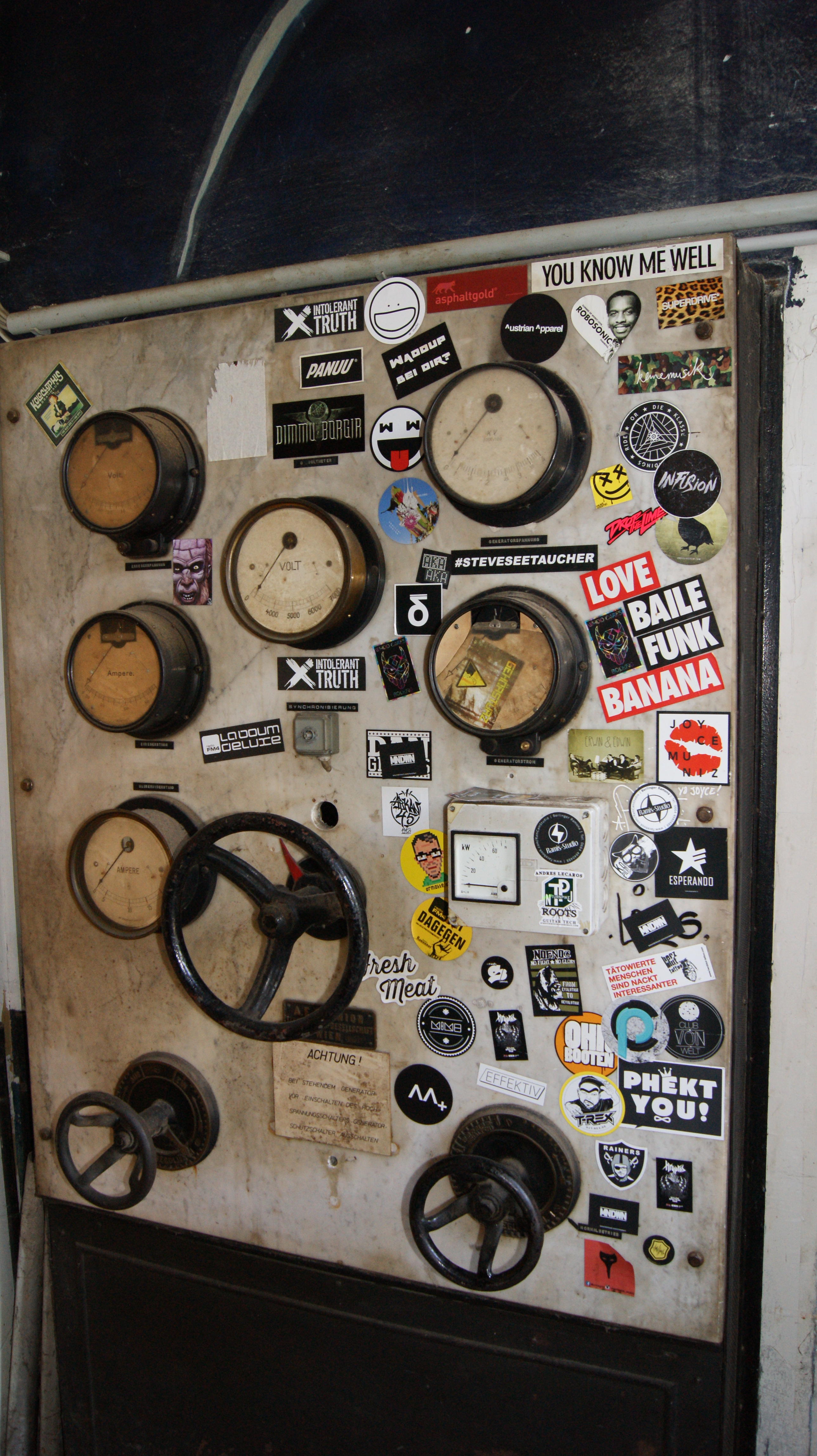 Plot Boden in Dornbirn (Vorarlberg, Austria). Part of the old power switching station for the former generator in the nightclub Conrad Sohm.